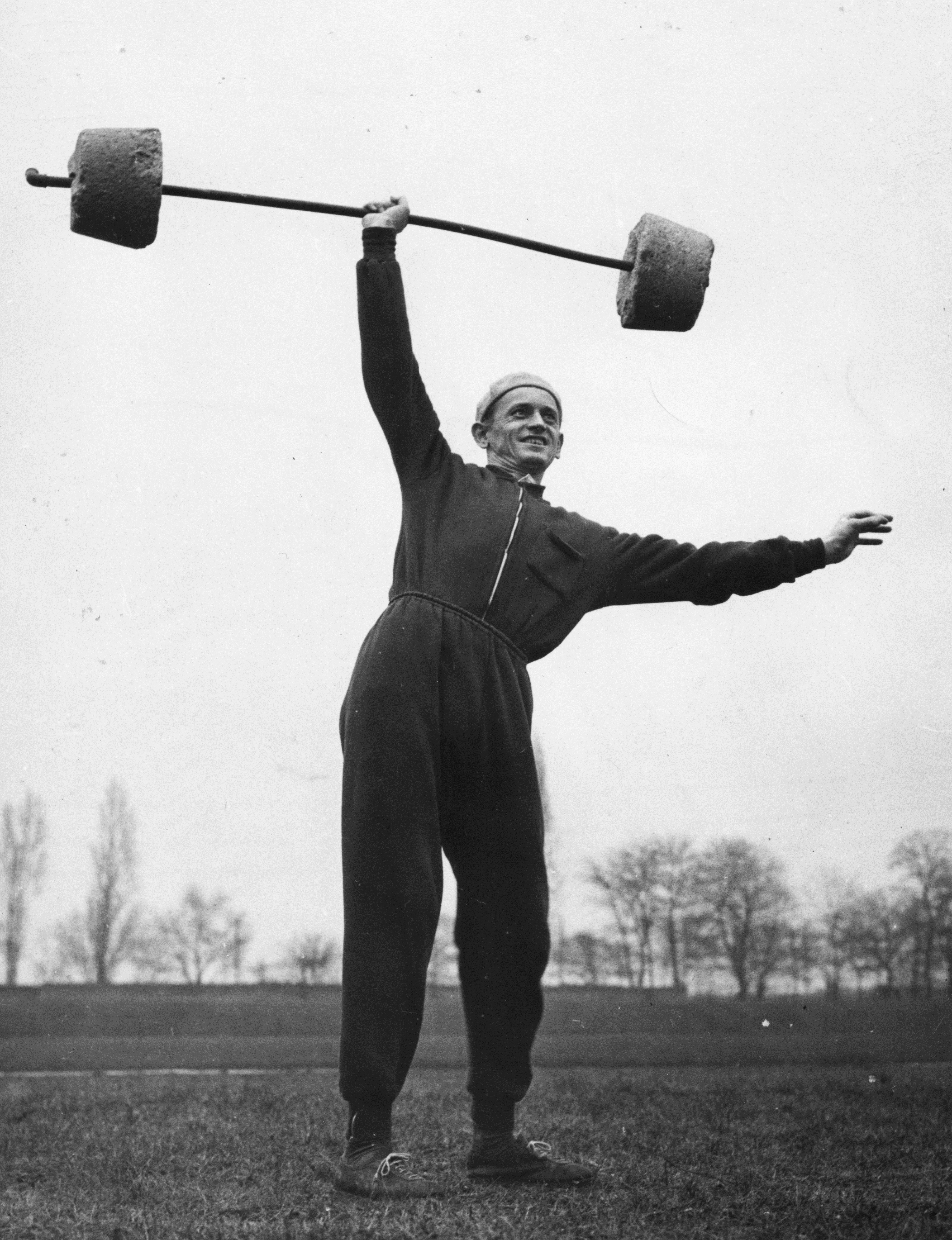 Tags: weight lifting, sweater